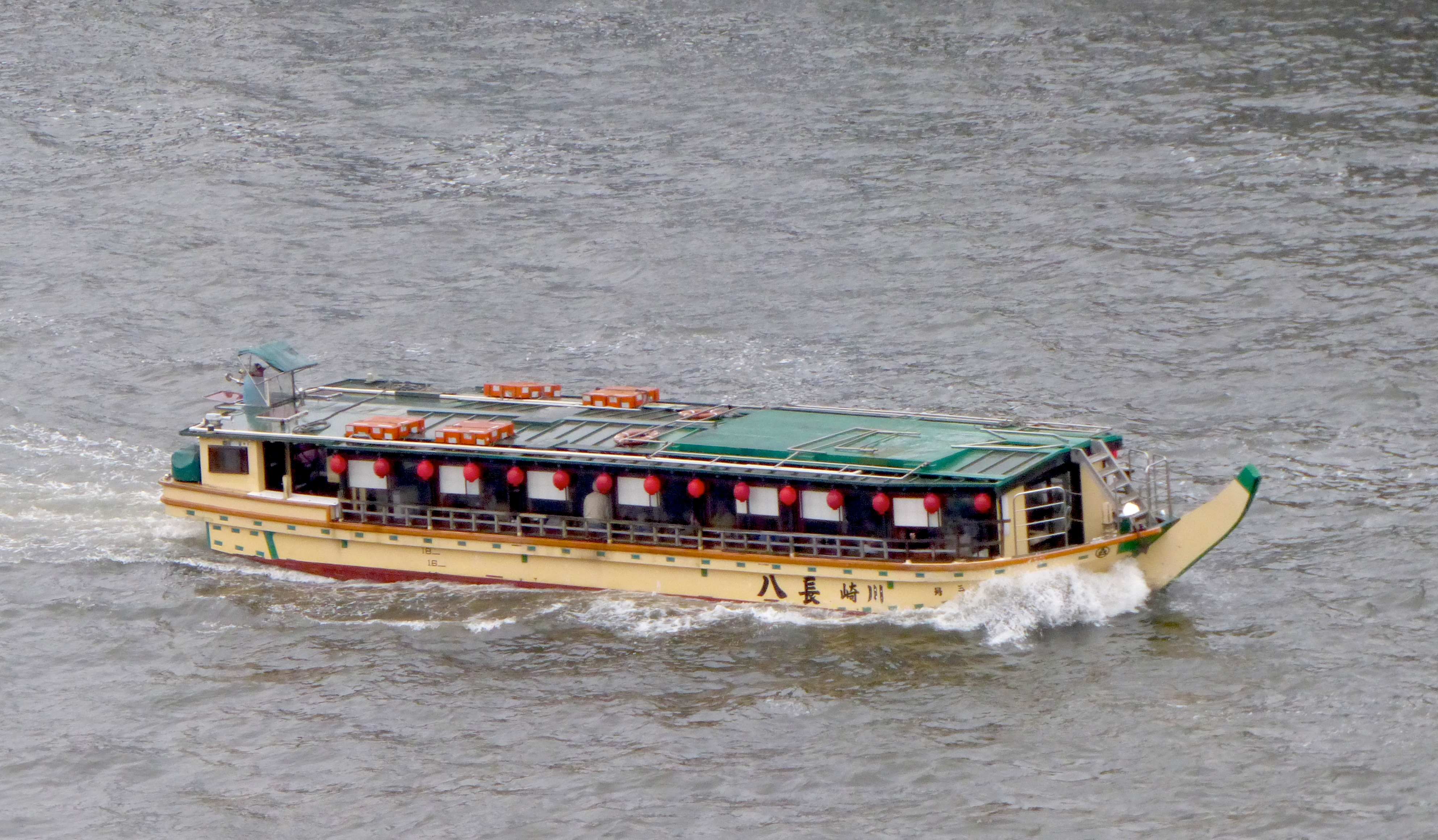 A "yakatabune" boat that was in Asakusa